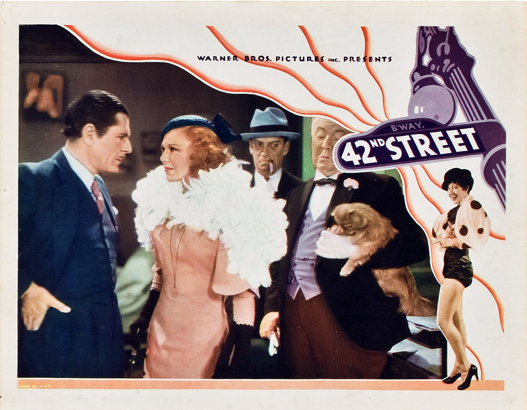 Lobby card from the 1933 film 42nd Street.